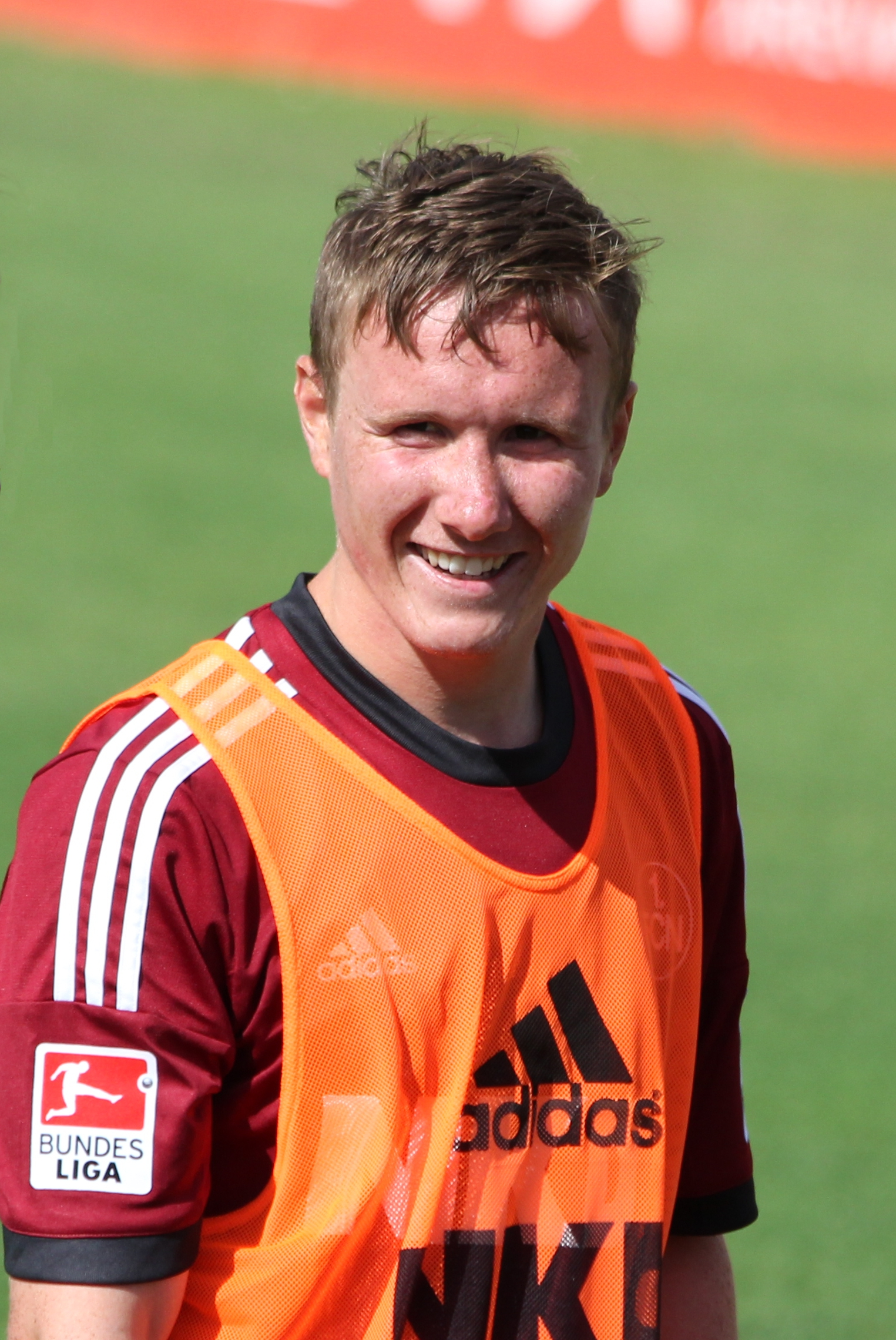 Markus Mendler, football player for German side 1. FC Nürnberg, 2012/13 season, first training session